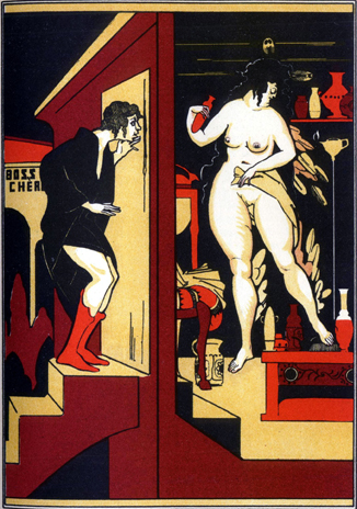 Illustration of the Golden Ass by Jean de Bosschère.